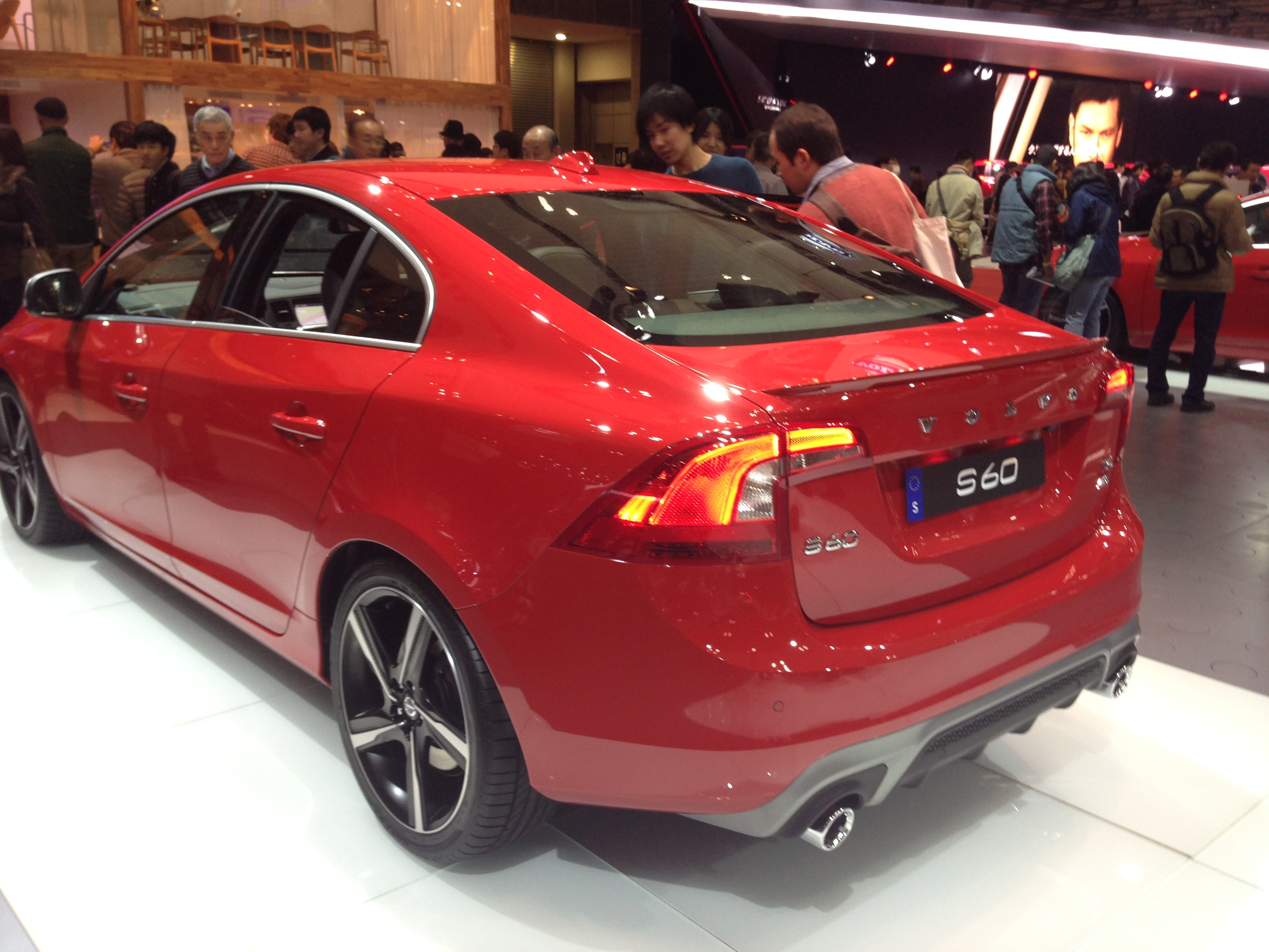 Volvo S60 T6 AWD R-Design photographed at the Tokyo Motor Show 2013.